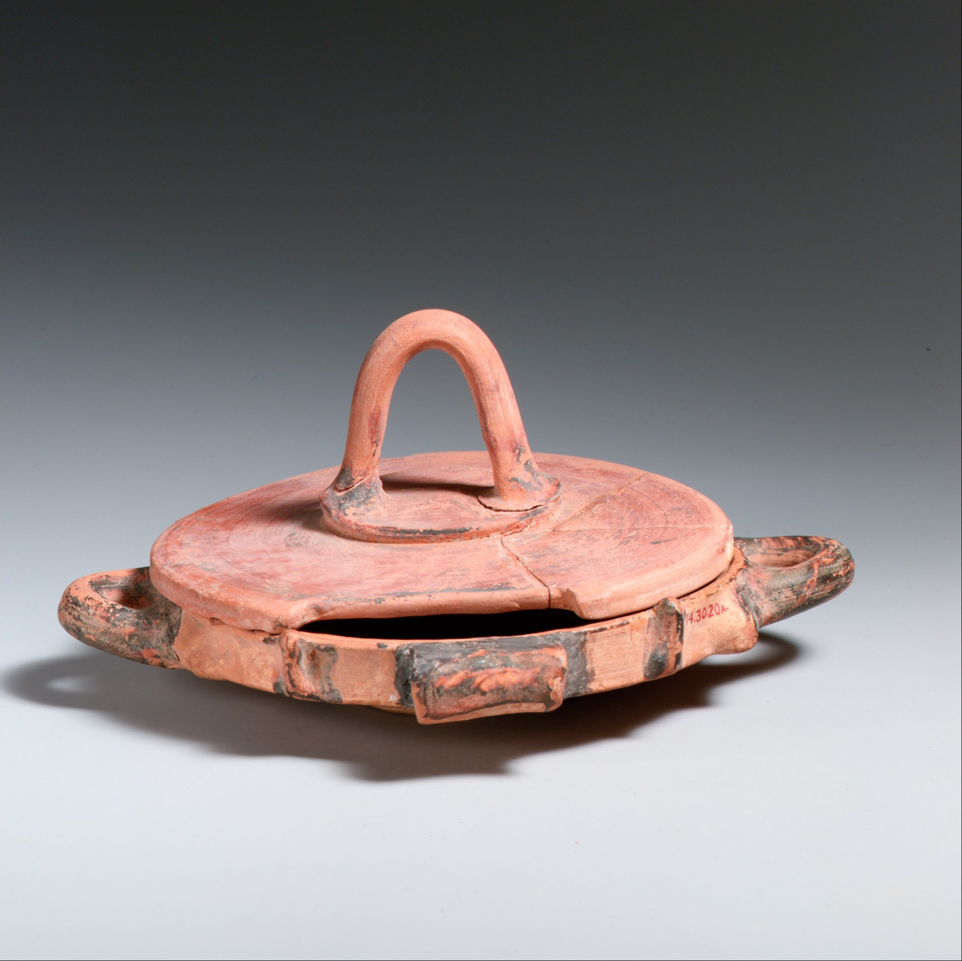 Lydian; Dish, flat; Vases